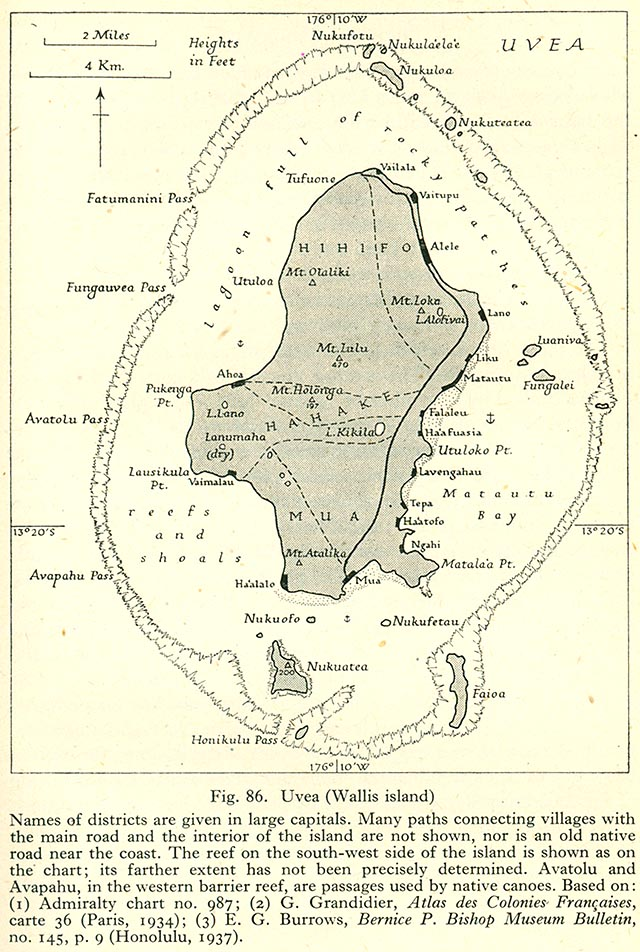 1944 Map of Wallis Island (ʻUvea)